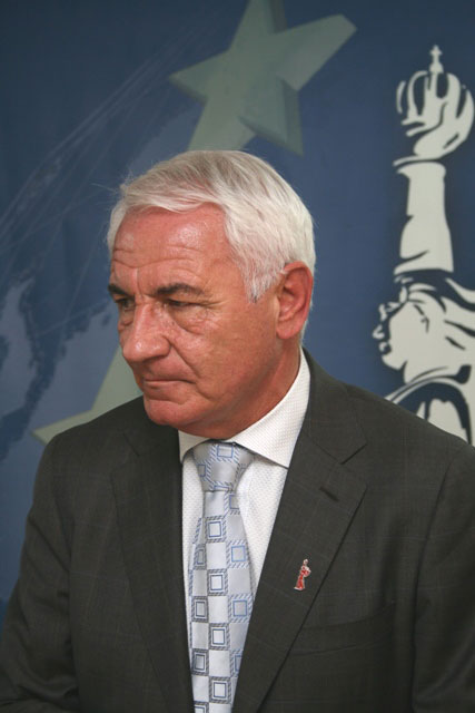 Veroljub Stevanovic, Mayor of the City of Kragujevac